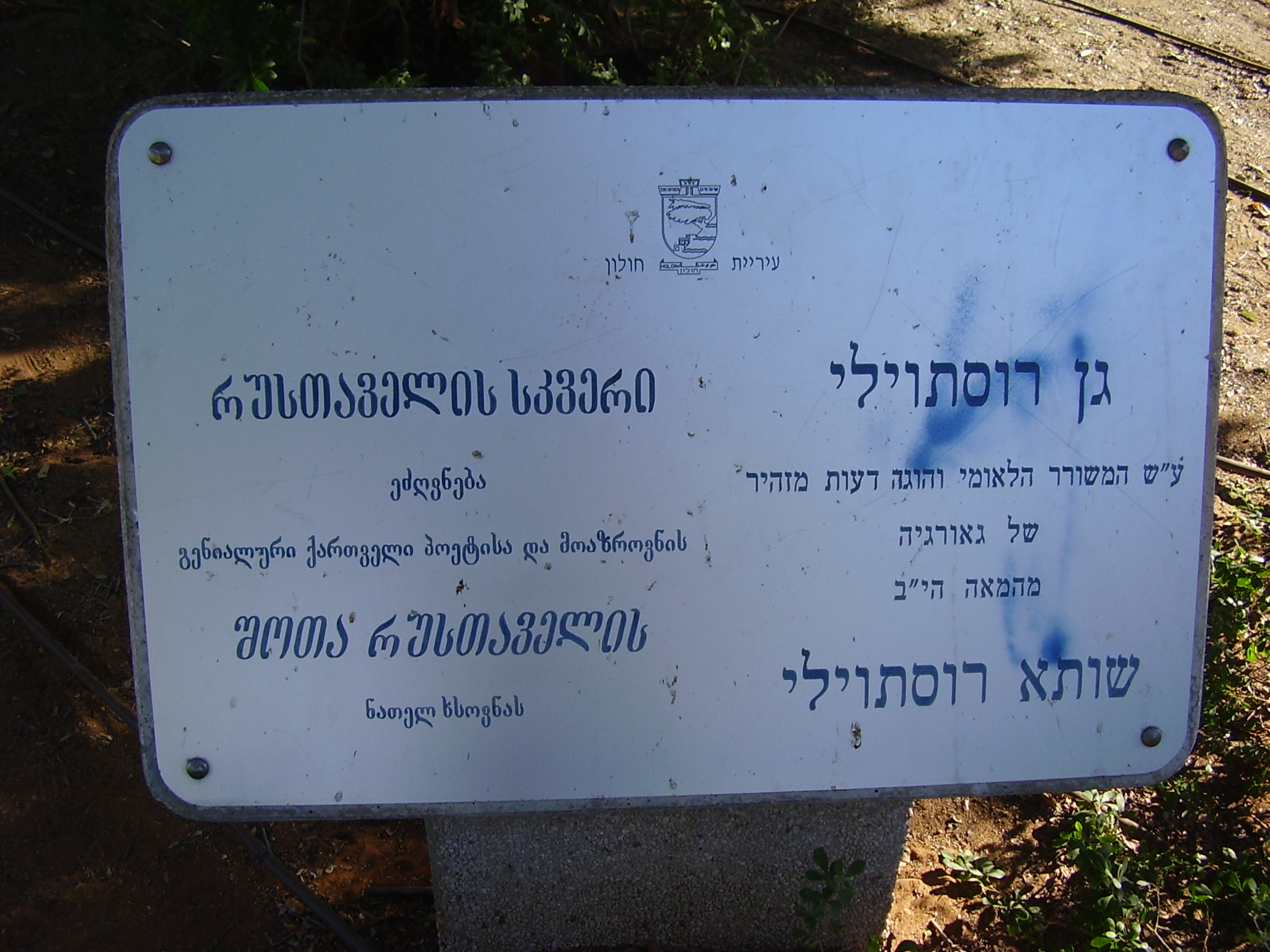 shota rustaveli garden in holon